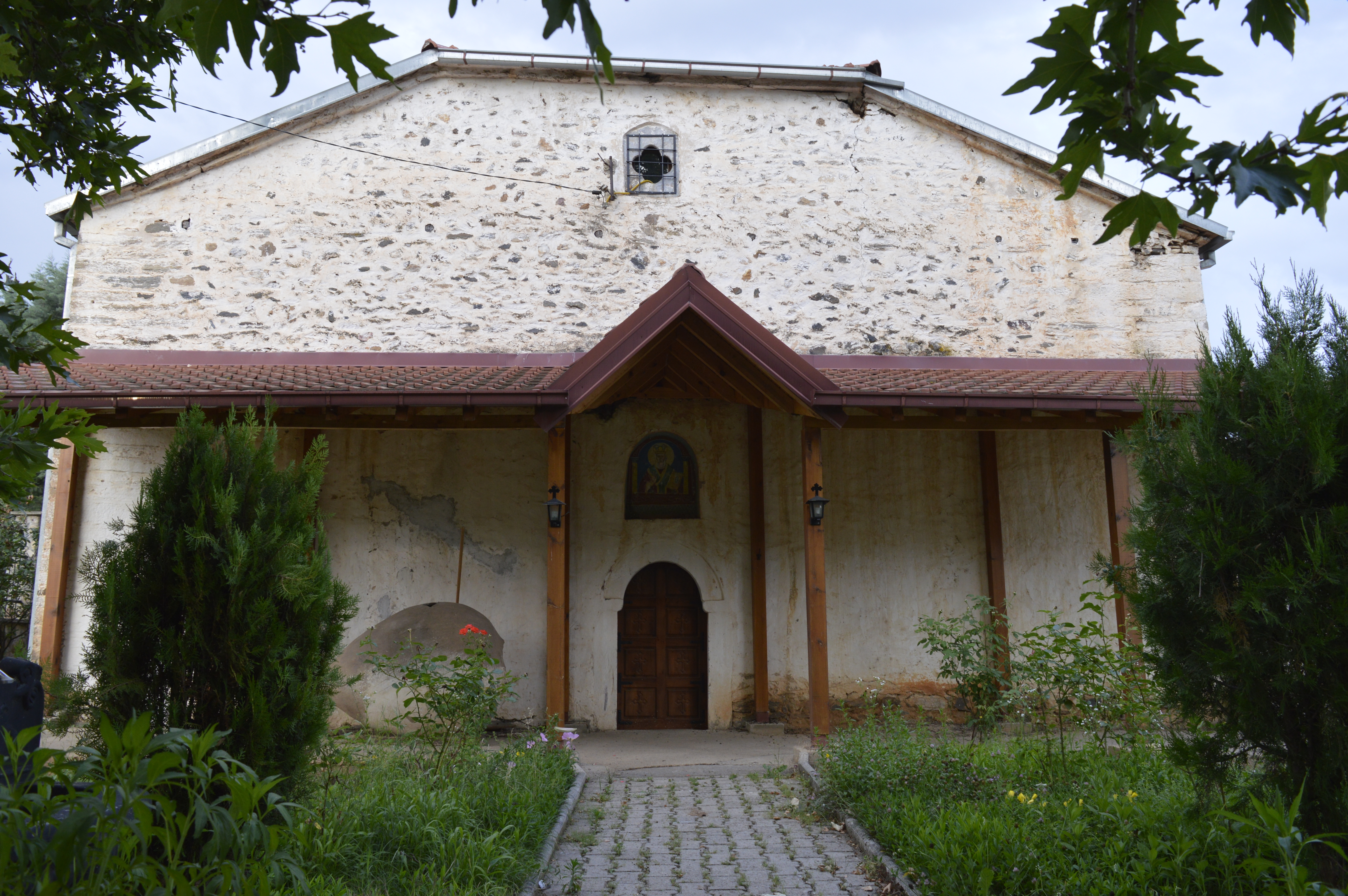 View of the St. Athanasius Church in the village Teovo